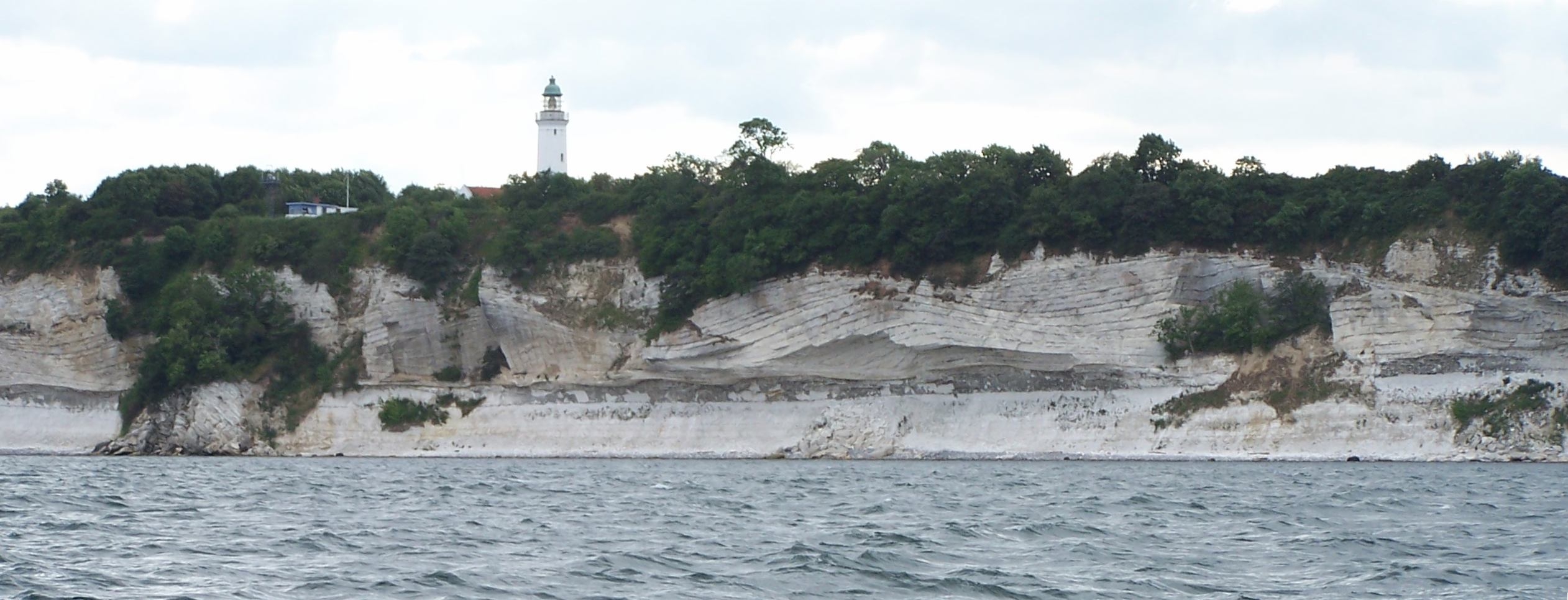 Stevns Cliffs Sámegiella: Stevns Klint